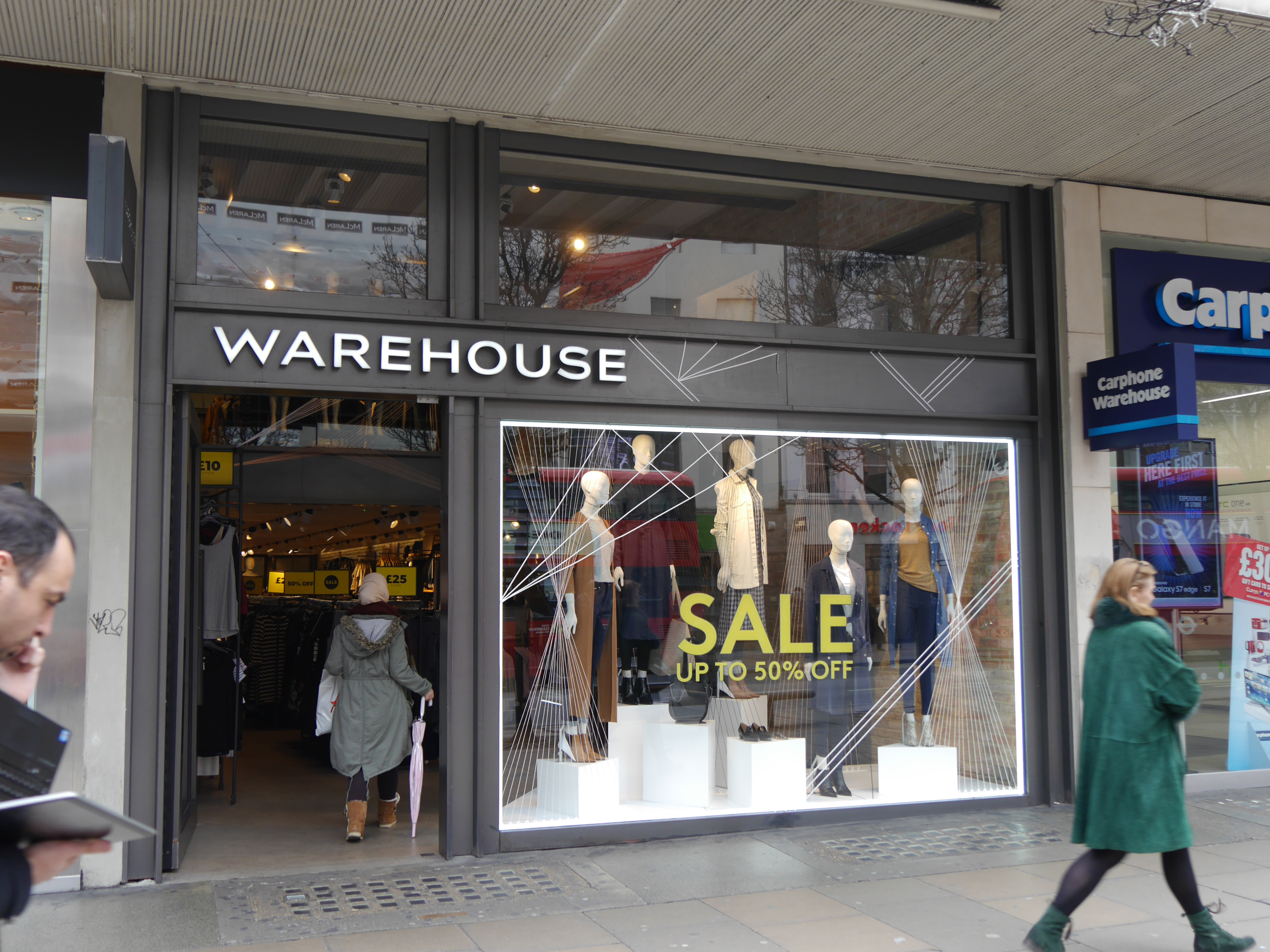 Oxford Street, London, March 2016